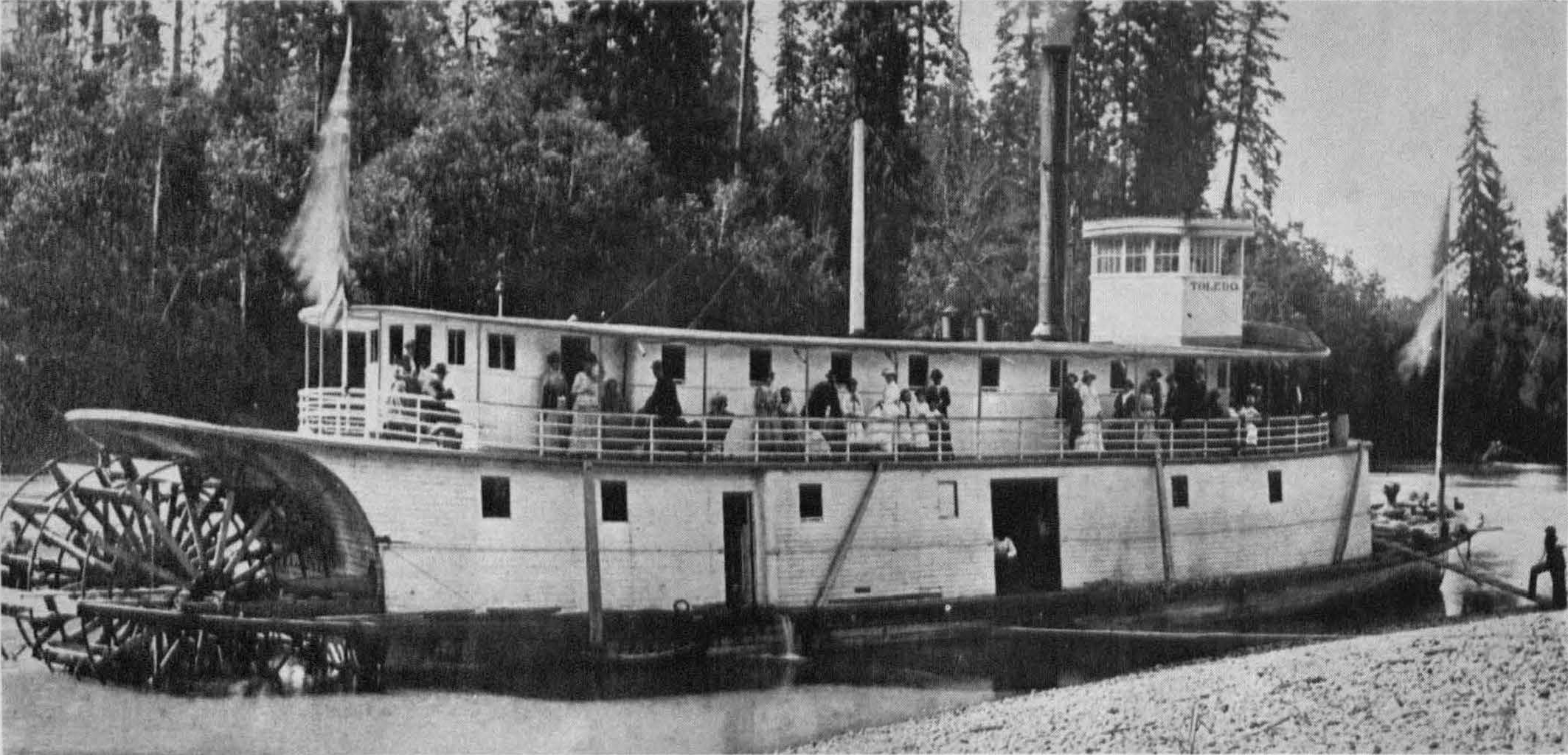 Toledo, sternwheeler, probably on the Cowlitz river, circa 1890.